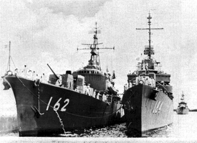 The Japanese Maritime Self Defence Force destroyers Teruzuki (DD-162) and Yūgure (DD-184) at Apra harbor, Guam (USA), circa 1962. Yūgure was commissioned in 1944 as USS Richard P. Leary (DD-664). Teruzuki was one of two Akizuki-class destroyer leaders. This class was equipped with U.S. electonics and armament, especially note the 127 mm/54 caliber Mark 16 gun which was used on the Midway-class aircraft carriers.